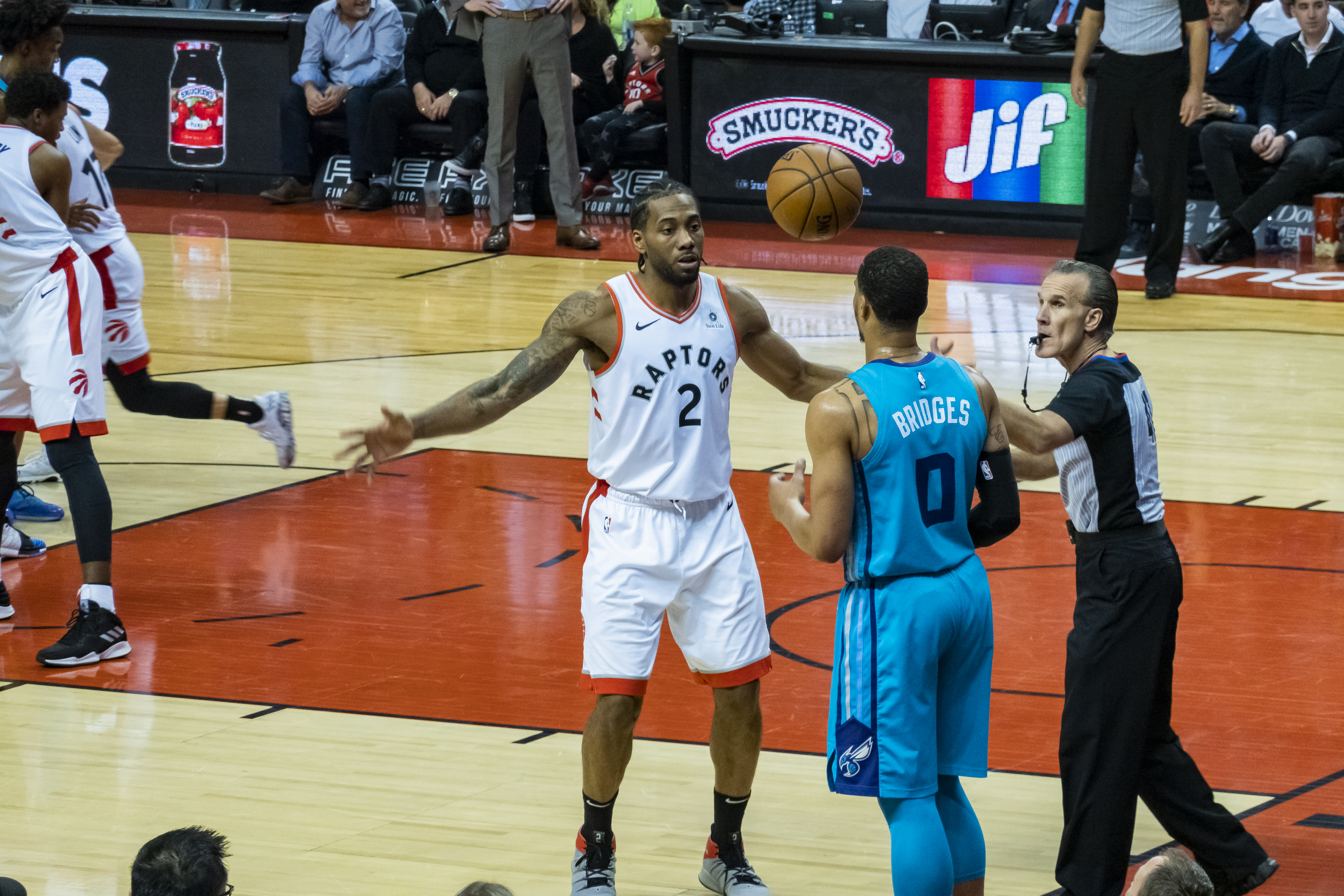 kawhi leonard playing for toronto raptors scotiabank arena v charlotte hornets nba